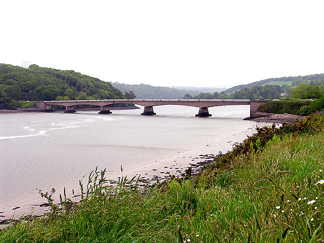 Blackwater River. The Blackwater river south of the bridge taken from the N25.